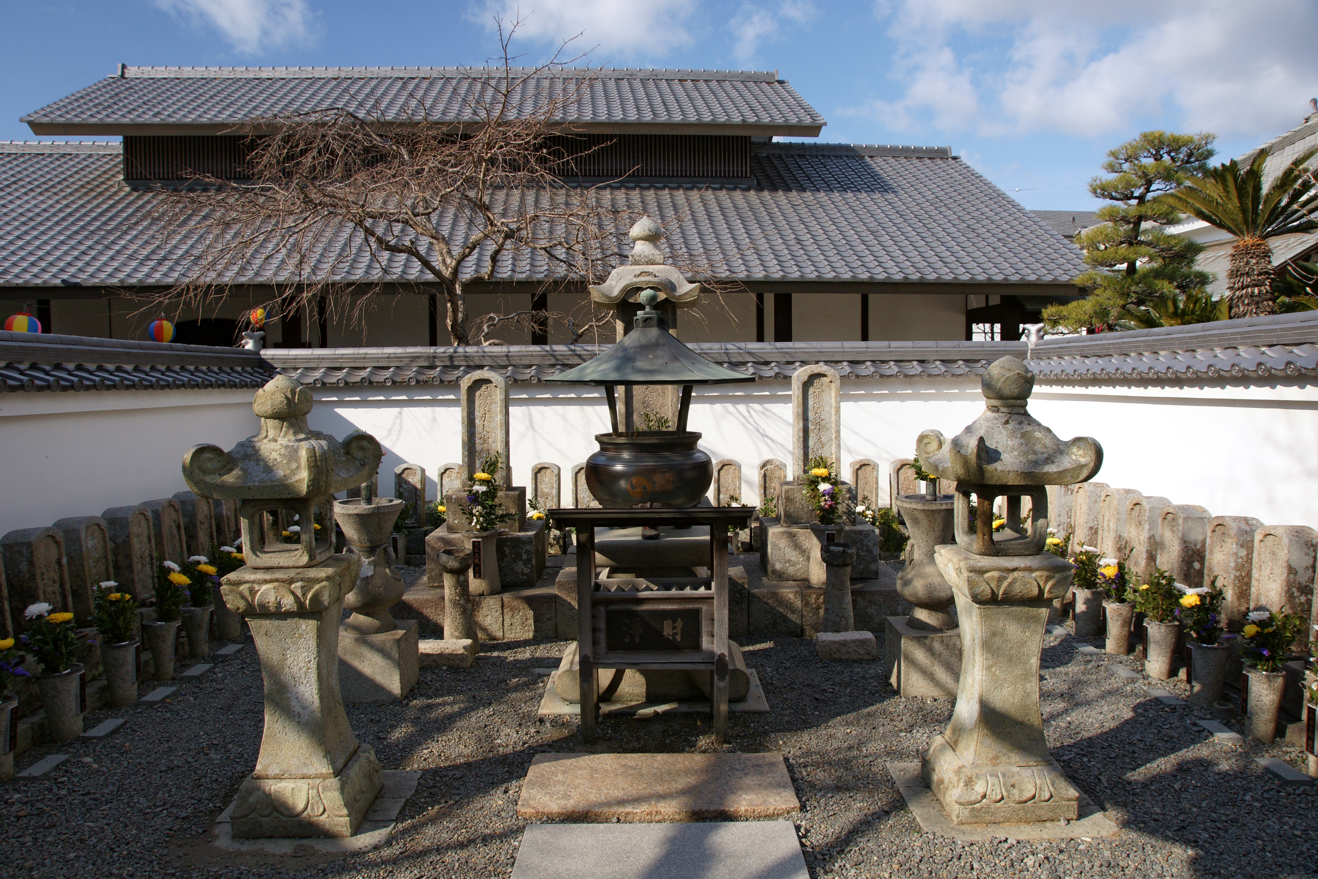 Kagakuji in Akō, Hyogo prefecture, Japan